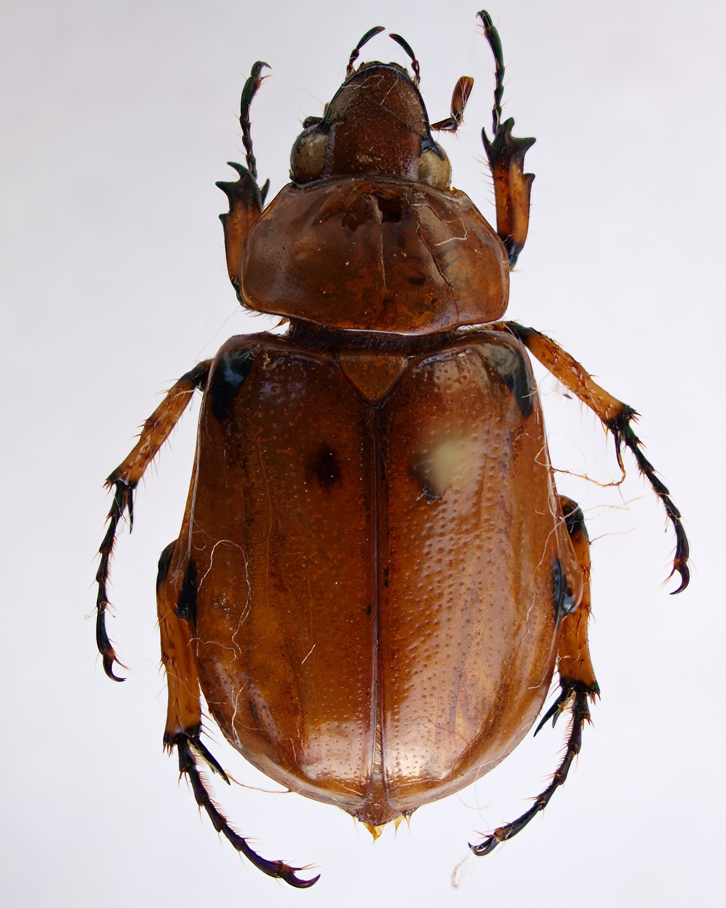 Ancognatha vulgaris (Dynastinae, Cyclocephalini), sex unknown